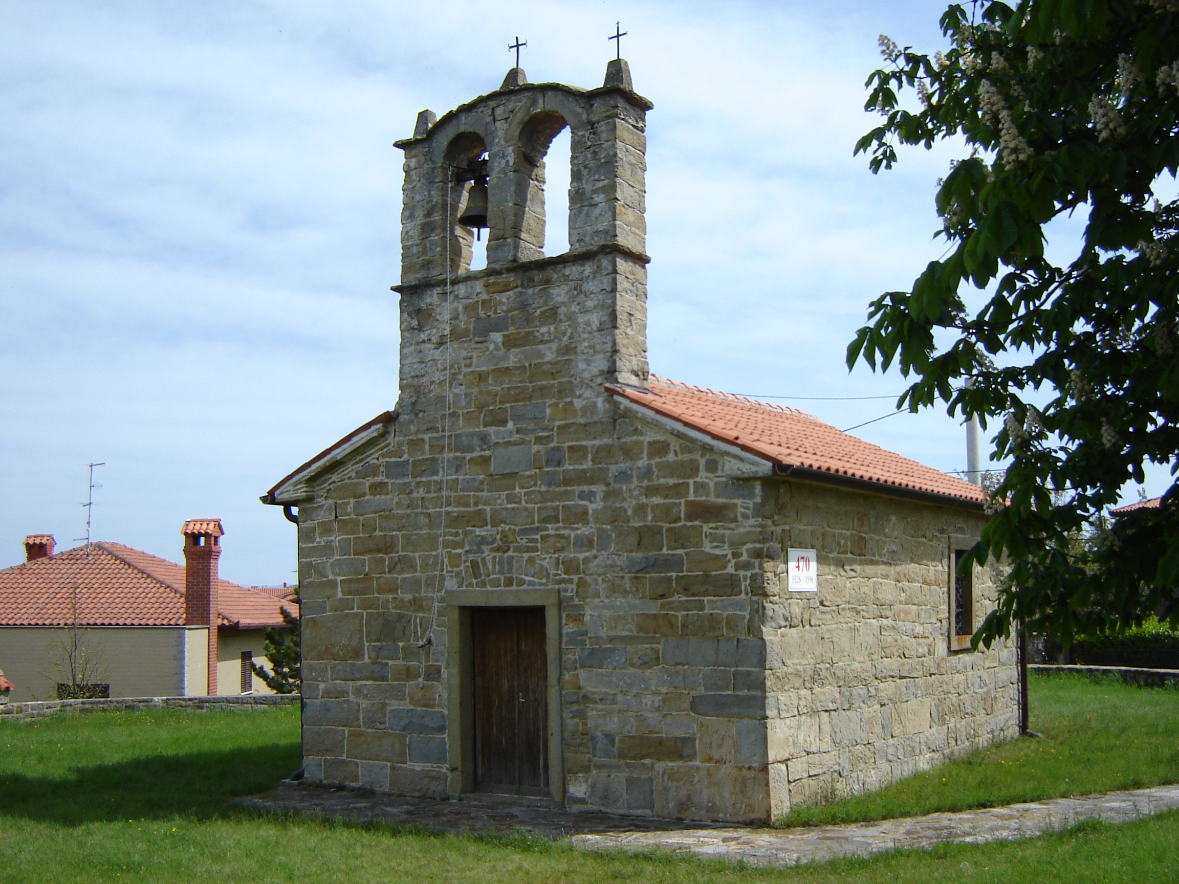 The church of saint Roch in the village of Boršt in the Municipality of Koper.